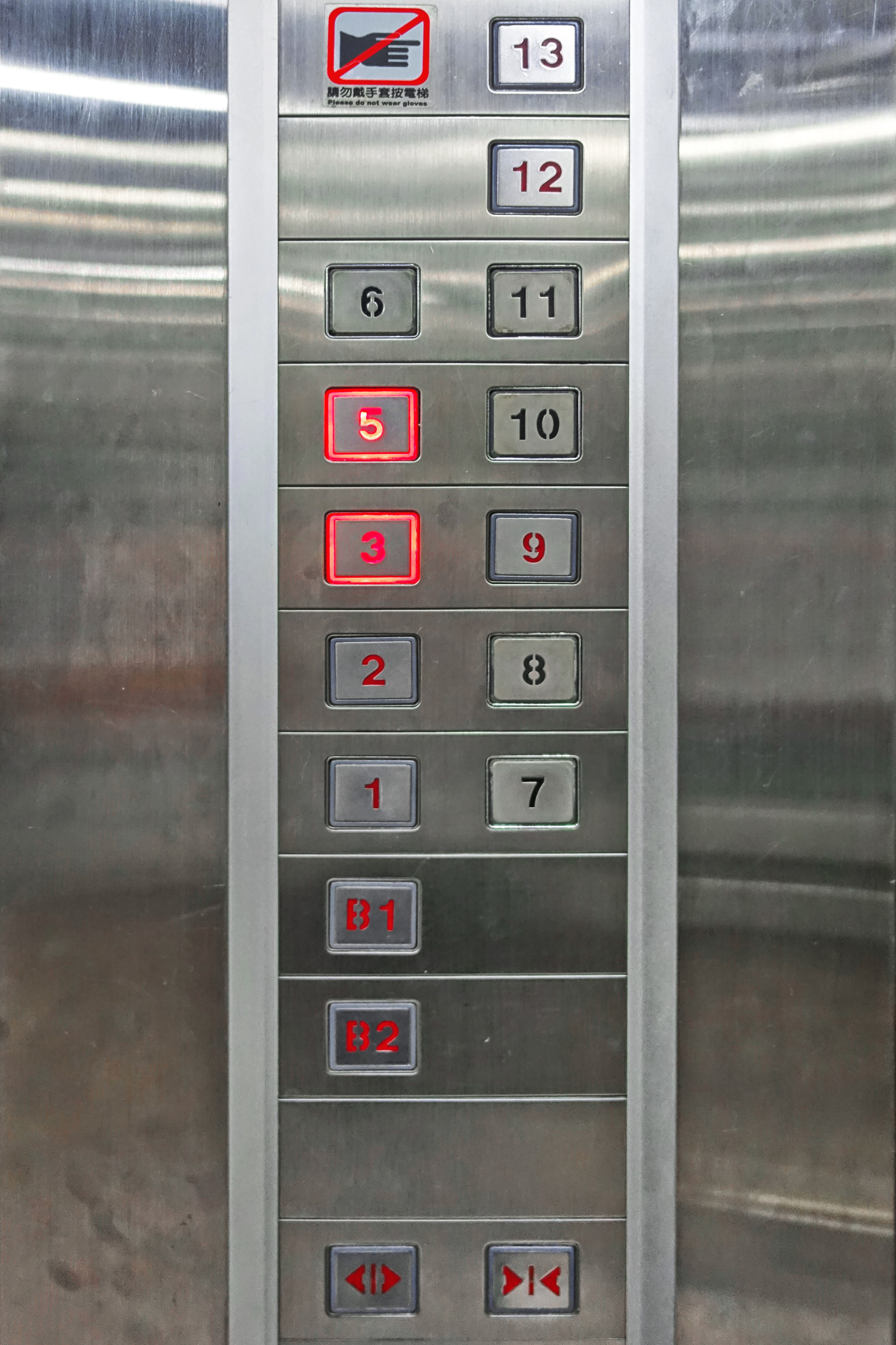 Tetraphobia (no button for 4th floor can be found on an elevator control panel)